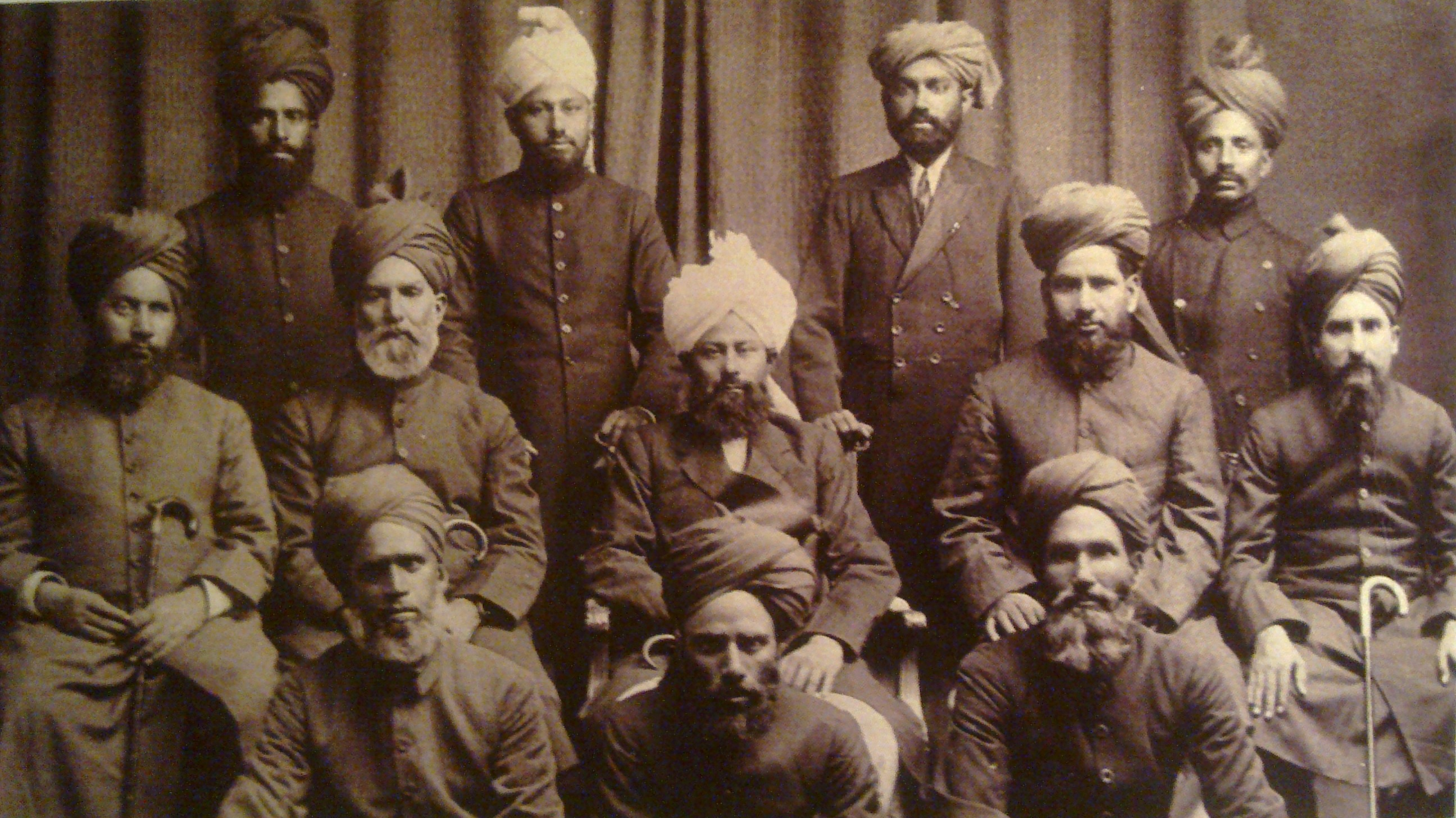 Al-Hajj Mirza Basheerud-Din Mahmood Ahmad, Khalifatul Masih II (seated centre) with Ahmadi scholars who accompanied him in his tour of Europe, 1924.